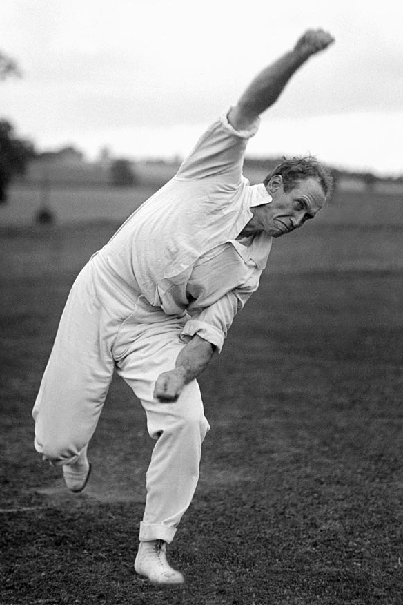 John Barton "Bart" King, cricketer